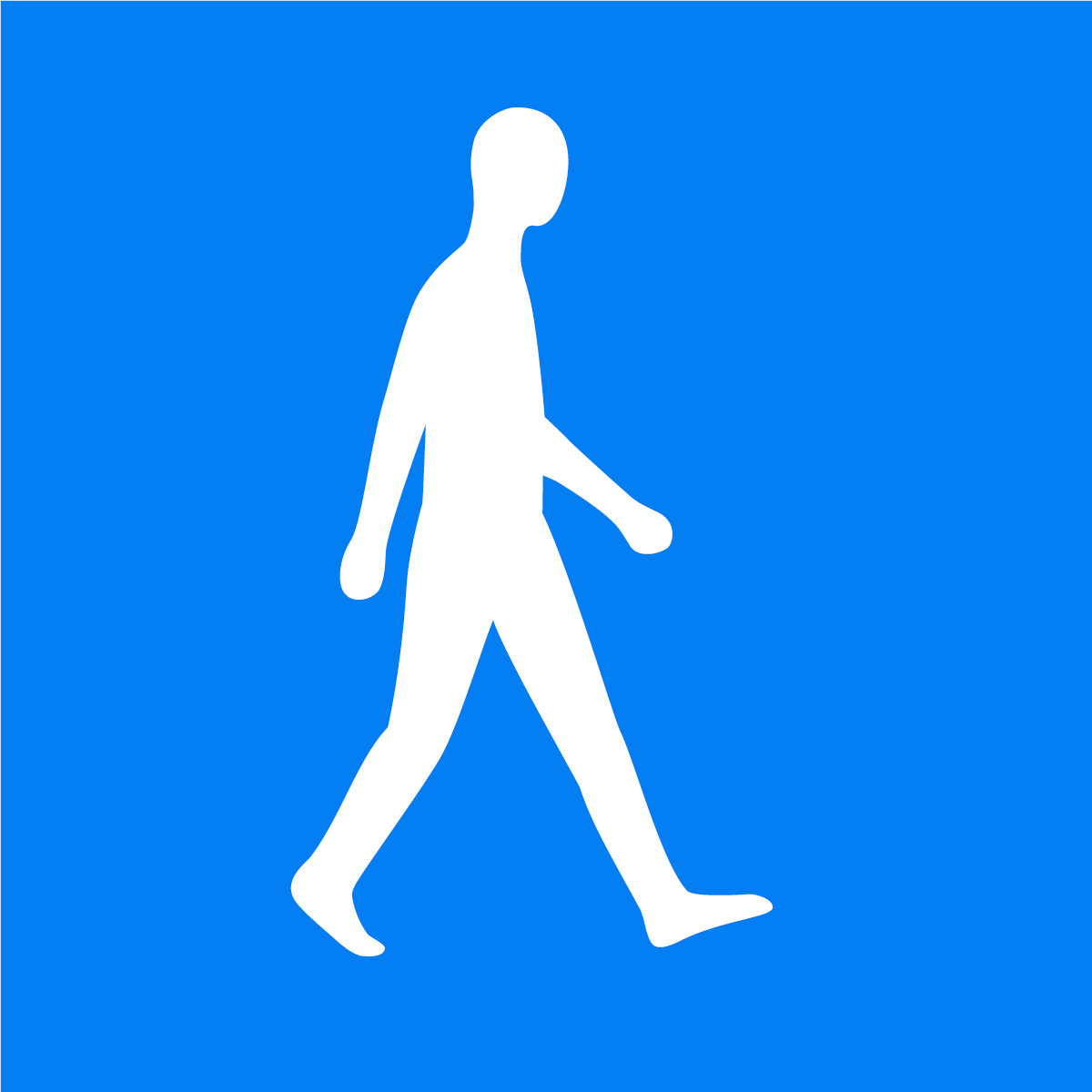 AIESEC Blueman (2020)